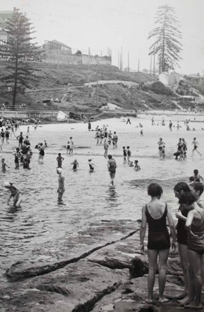 People at Clovelly Cove.